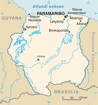 Map of Suriname in Estonian